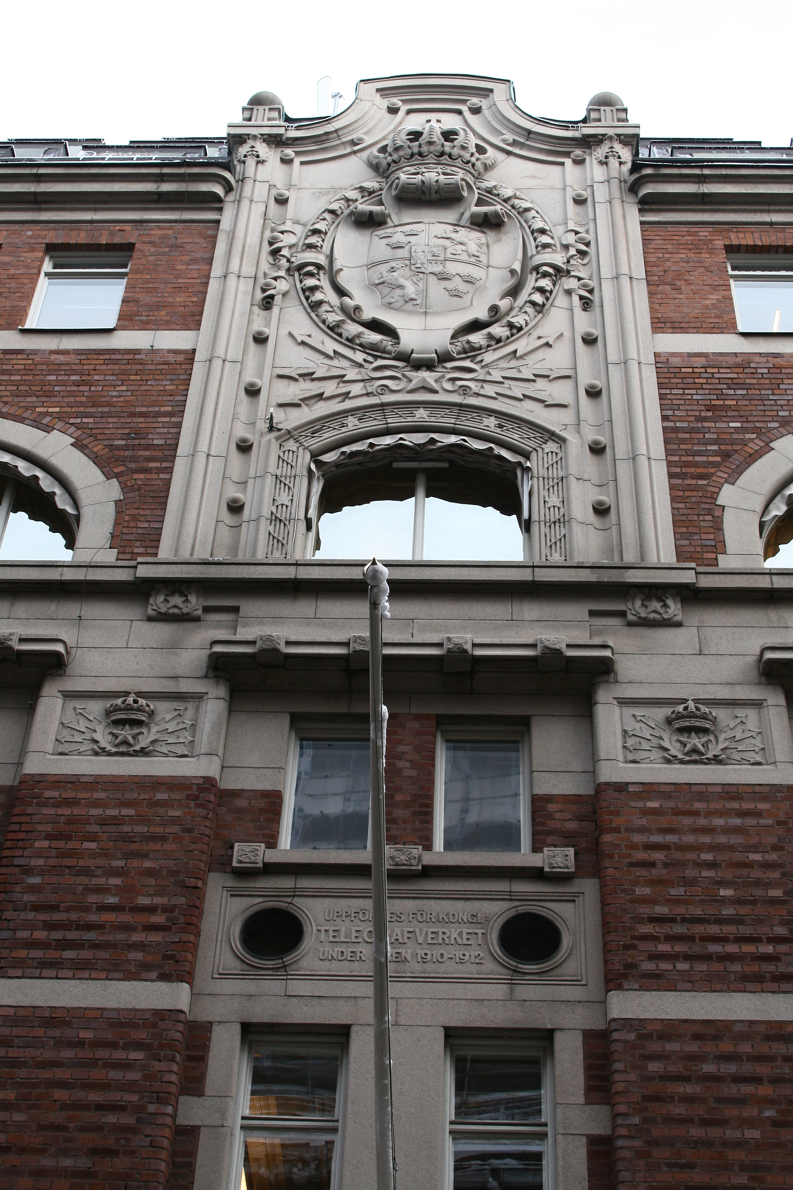 Brick and granite facade of Jakobsbergsgatan 24, Stockholm, in the city block named Jericho, looking up. Today office of Ernst & Young. Errected in 1910-1912 for Kongl. Telegrafverket, the national telecom (now TeliaSonera). Carved in granite: under the royal crown and the great seal of Sweden is the star with lightning bolts, the logotype of Telegrafverket. This logotype is repeated twice below. Text above the entrace: "Errected for the Royal Telecom during the years 1910-1912."